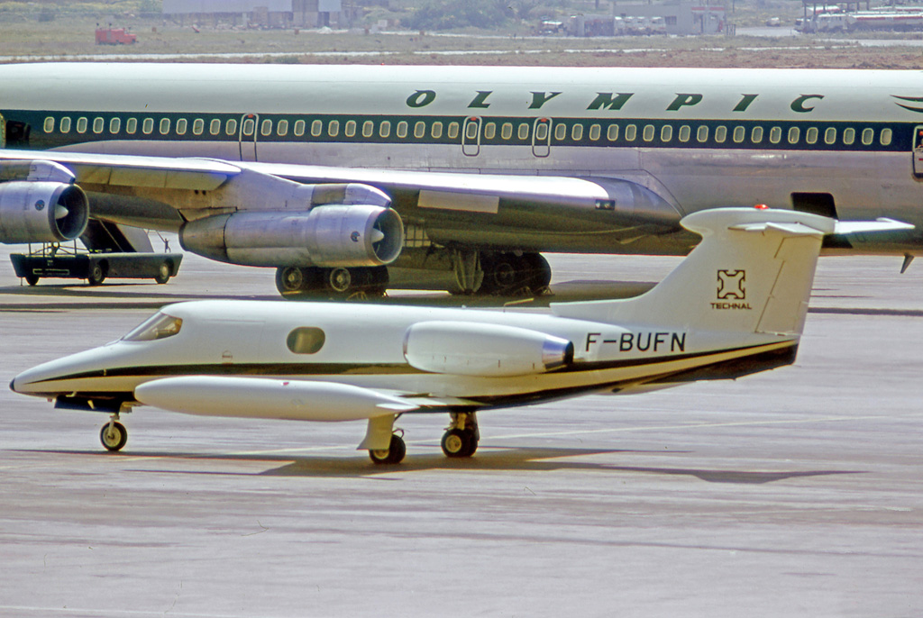 Learjet 24B F-BUFN at Athens Hellenikon in 1973